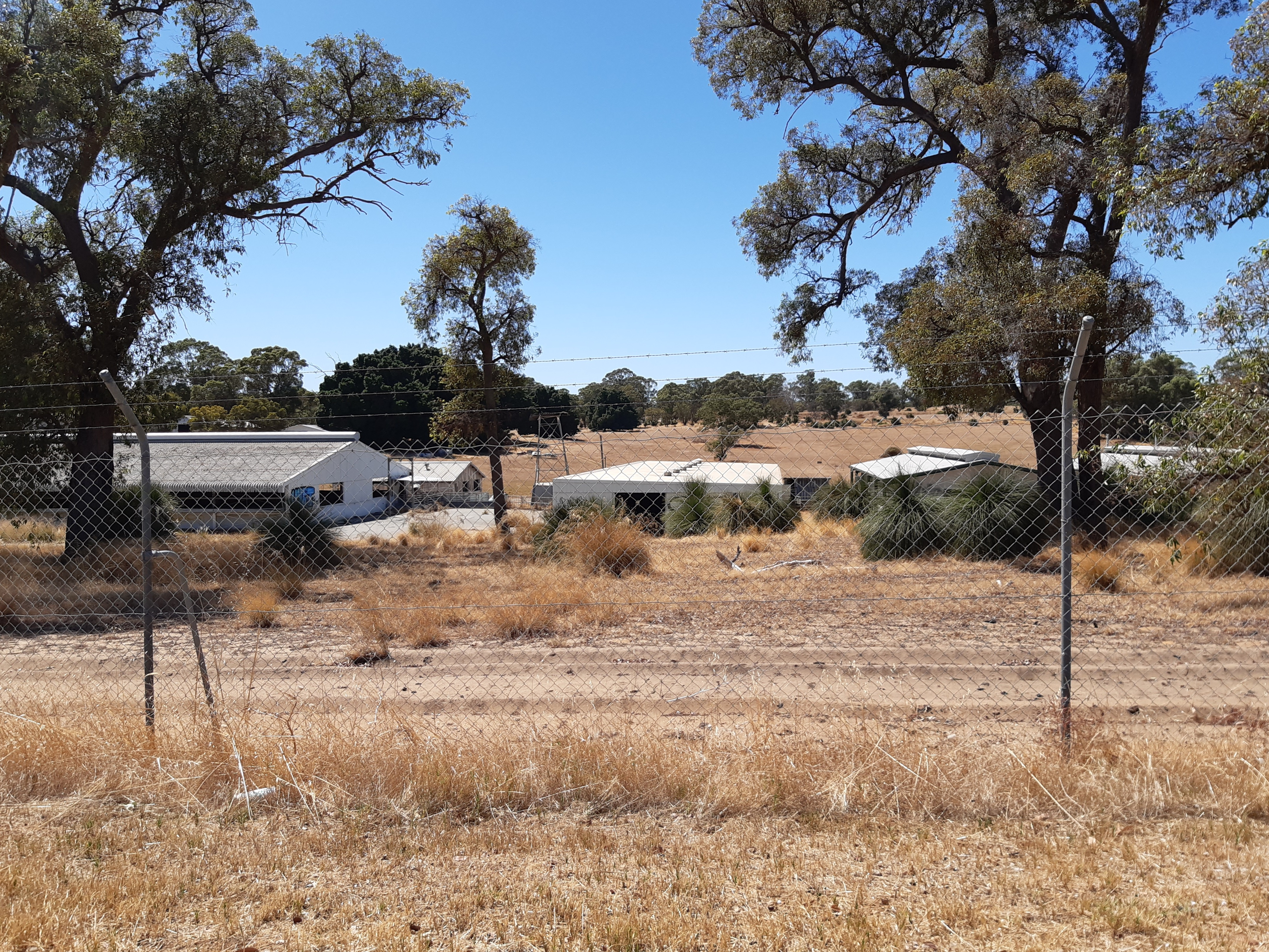 The Medina Research Station, Postans, Western Australia, seen from Abercombie Road.